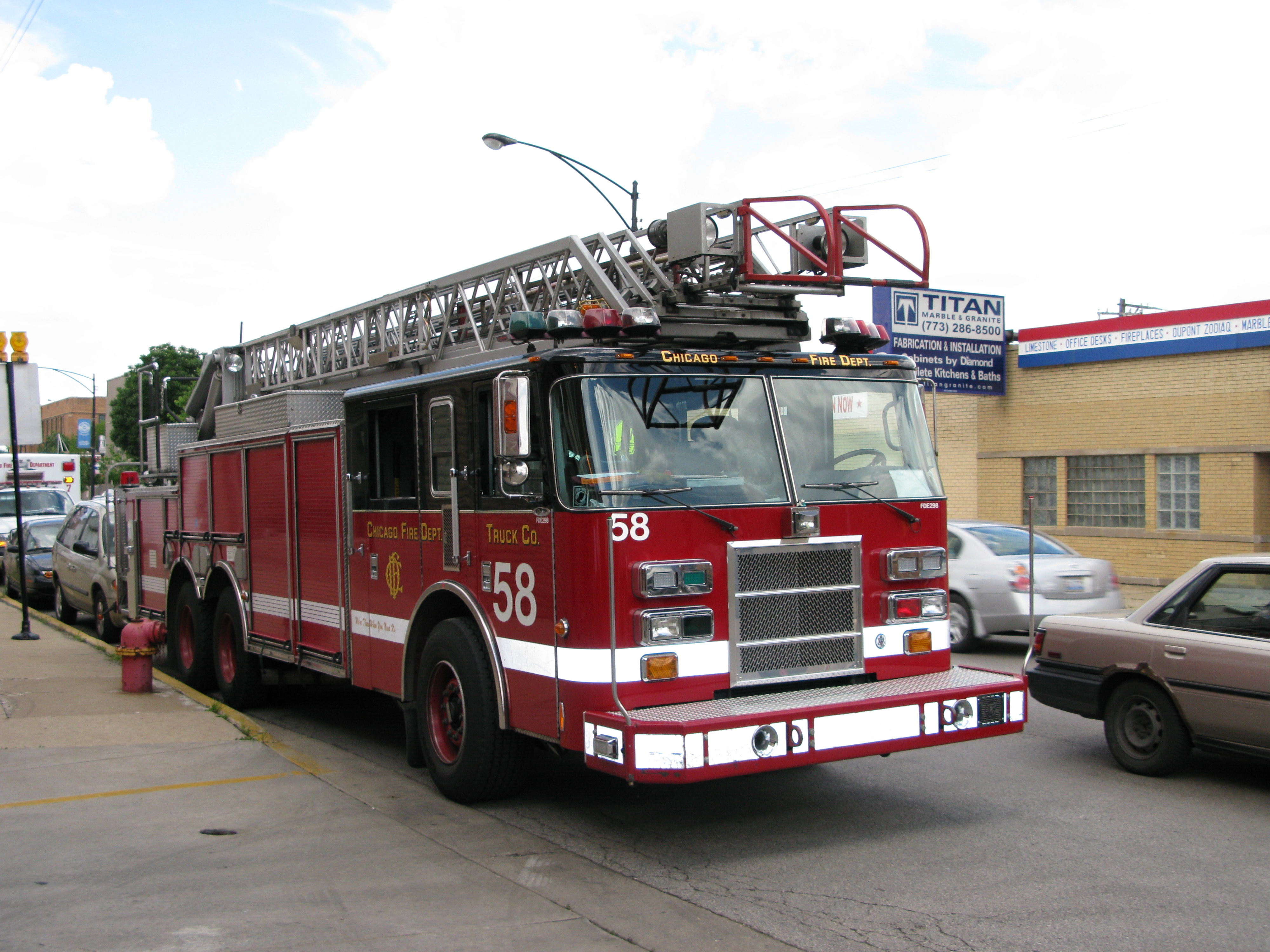 Chicago Fire Dept. Truck Company 58 Right side view 4911 W Belmont ave, Chicago